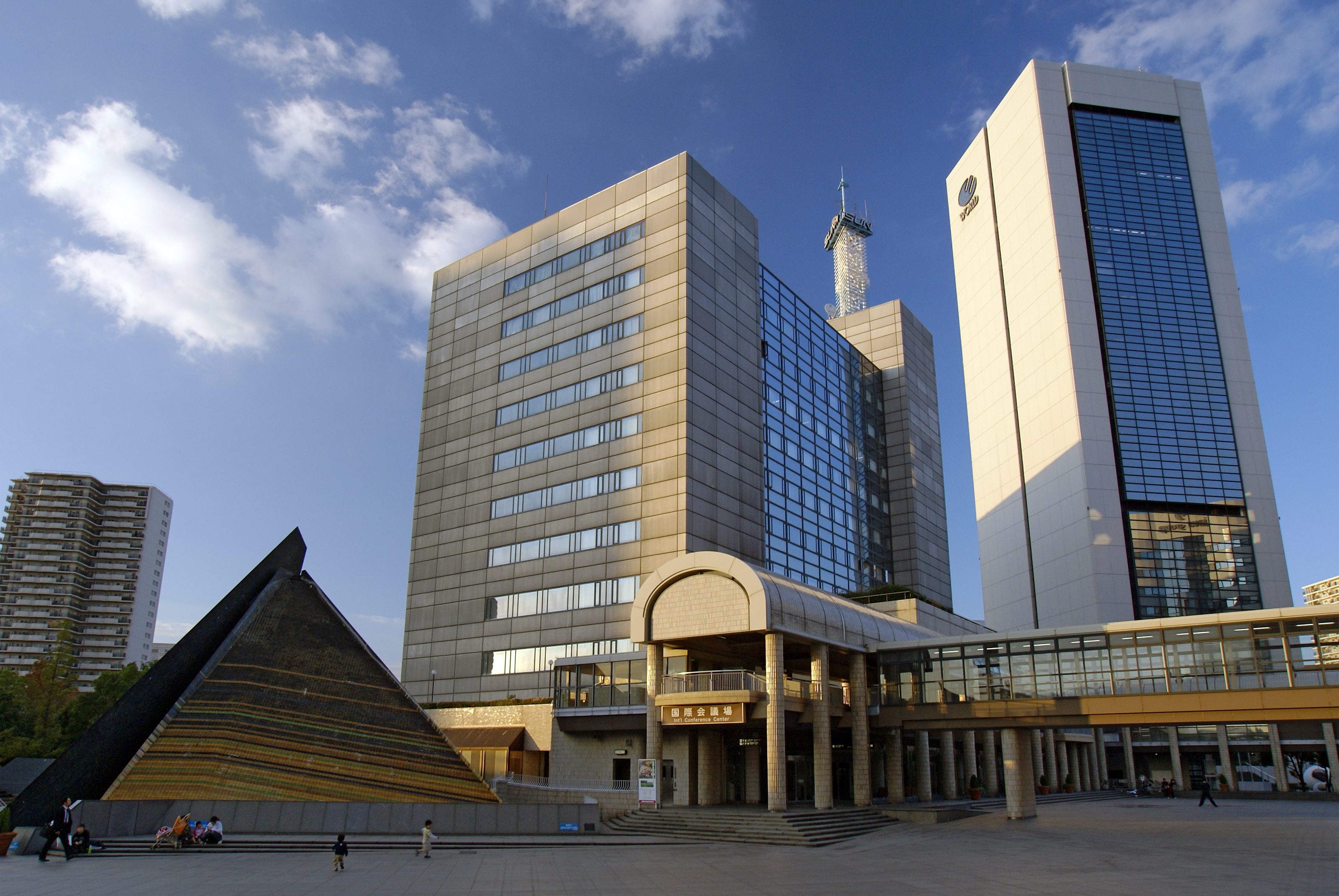 Kobe International Conference Center in Kobe, Hyogo prefecture, Japan